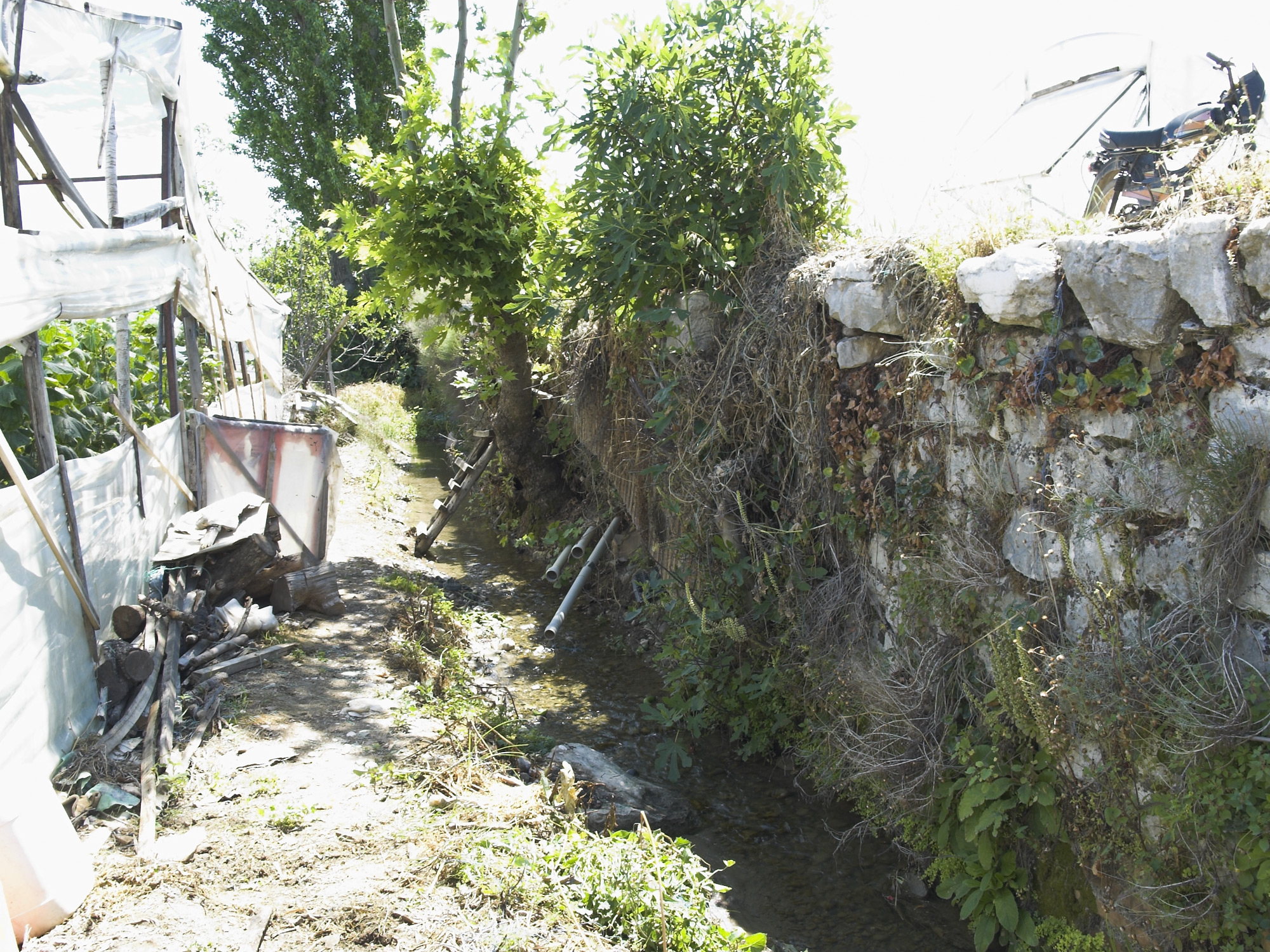 The Roman Bridge near Limyra, Lycia, Turkey. Sixth and fifth arch northside. The late antique structure is one of the oldest segmental arch bridges in the world. The 360 m long bridge crosses on 28 arches the Alakır Çayı, 26 of which being segmental arches with an average span to rise ratio of 5.3 to 1. Today, the structure is buried up to the vaults by river sedimentation.